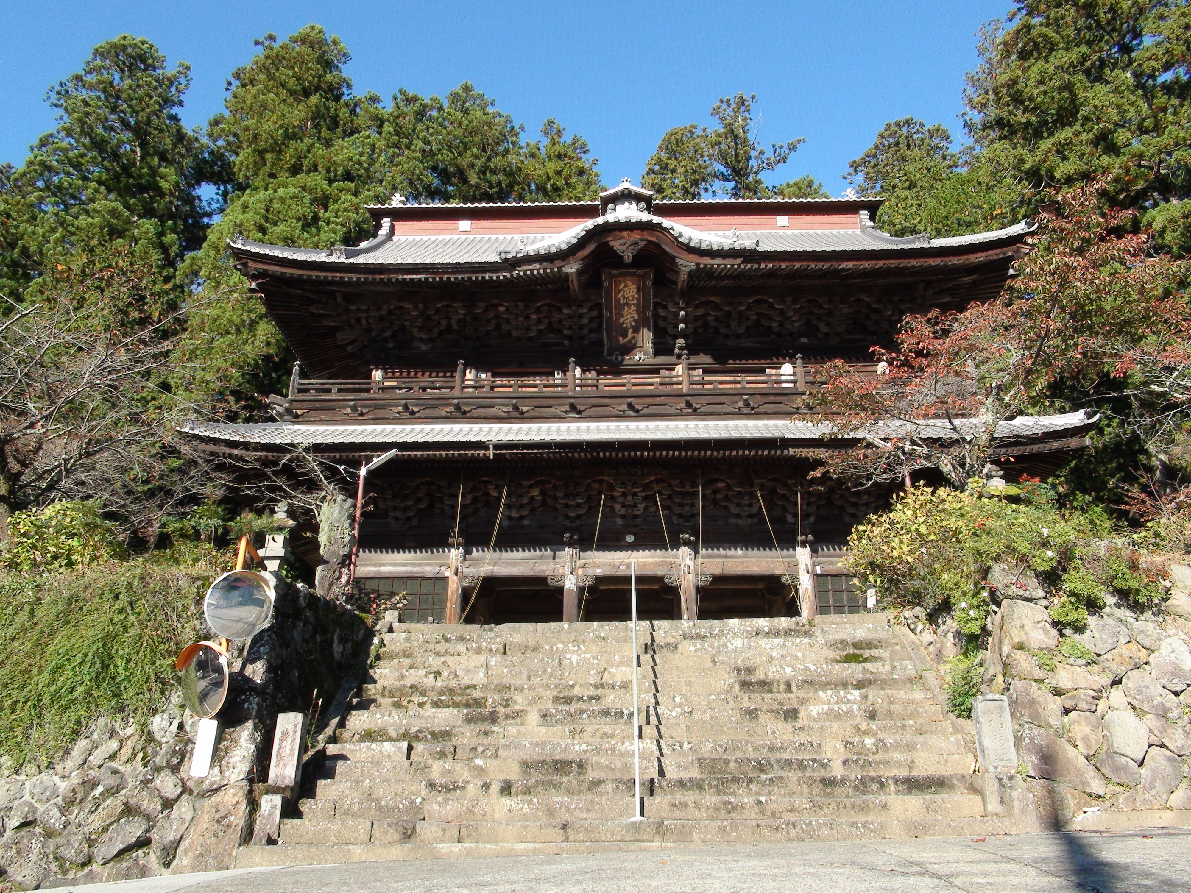 Myohoji Main Gate Fujikawa Yamanashi